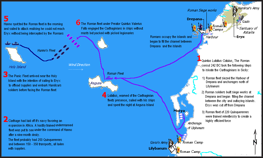 The Activity if Romans under Consul Lutatius Catulus to blockade Carthaginian strongholds of Drepana, Eryx and Lilybaeum in 241 BC during the First Punic War in Western Sicily. Carthage sent a fleet to lift the blockade. Romn won the ensuing naval battle, and Carthage sued for Peace.